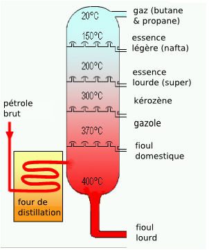 Diagram drawn by Theresa knott